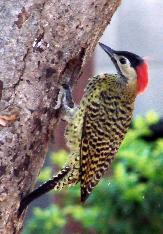 Green-barred Woodpecker Colaptes melanochloros. Photo by André Roviralta Dias Baptista, taken in Valinhos, SP, Brazil, August 2007.